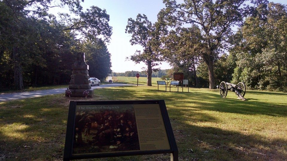 Monument to commemorate the death of General John Sedgwick, Commander of the Union Army VI Corps in the American Civil War, at Spotsylvania National Military Park, Virginia, USA.